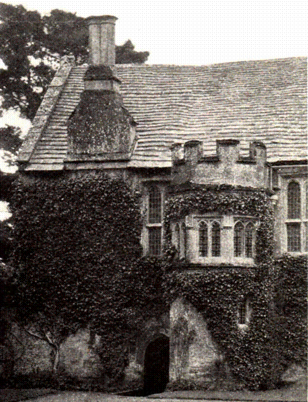 Old photograph. Found here [1] " ../734x1034.html". Where it is declared to be: "public domain, hence royalty-free stock image for all purposes and no usage credit required". Information given is: Image title: 67. Brympton D'Evercy, Somerset. Place shown: Brympton D'Evercy, Somerset, England Status: public domain in the USA, out of copyright in Canada, hence royalty-free stock image for all purposes and no usage credit required Notes: Bay Windows (late 15th century)